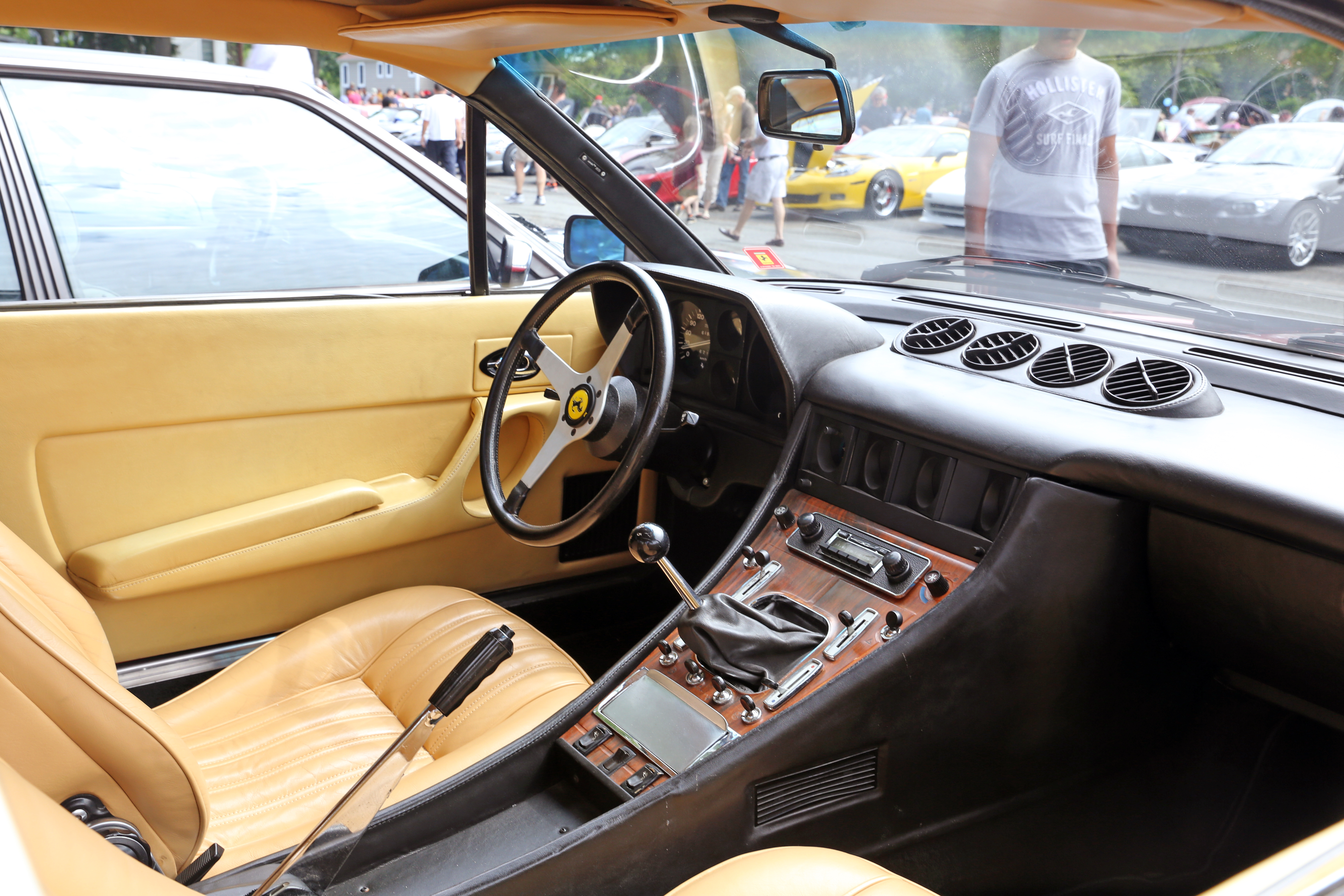 Interior of a Ferrari 365 GT4 2+2.